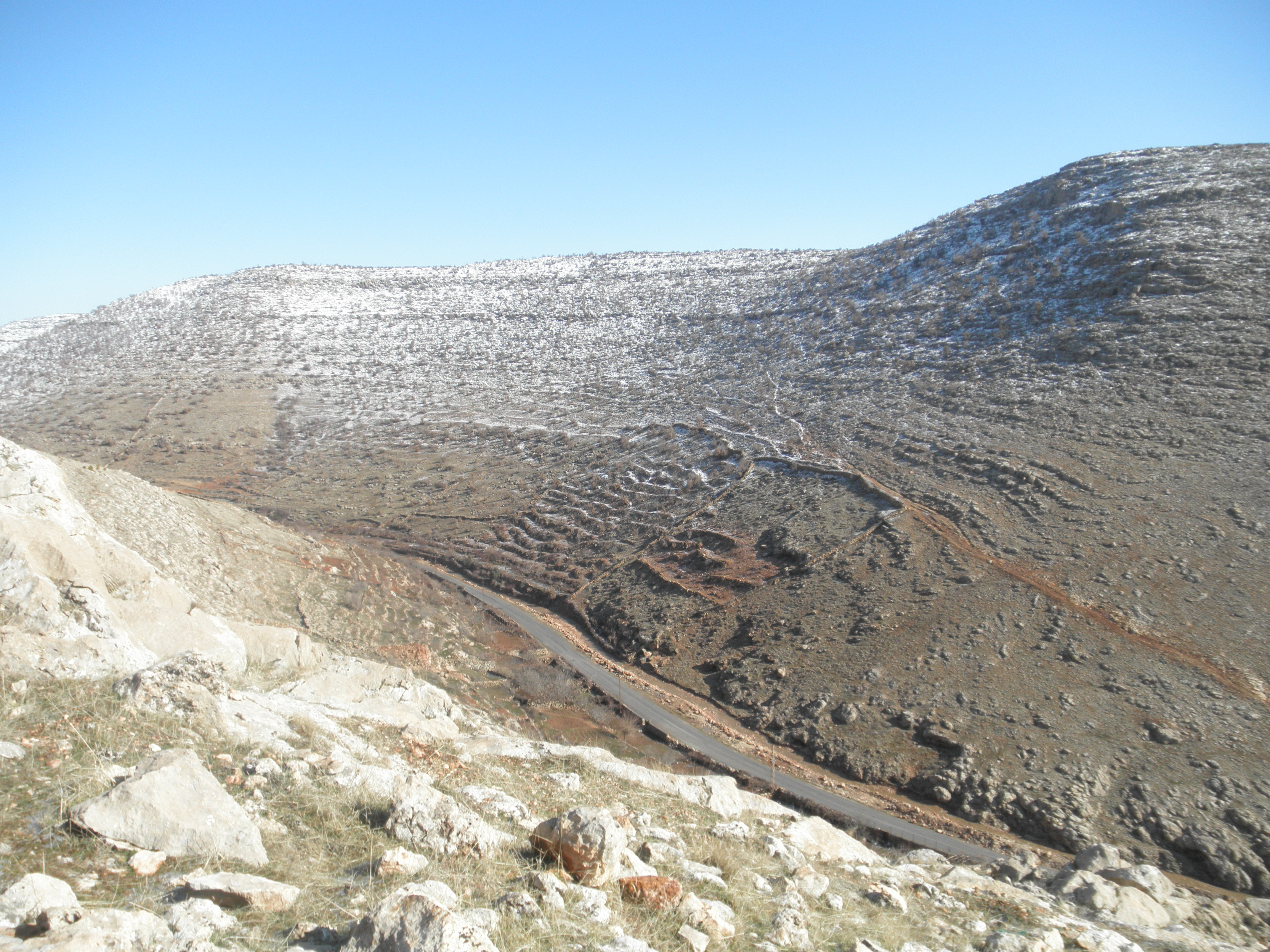 Valley of Aşan in Kerboran.Kurdî: Newala Aşan li Kerboranê.